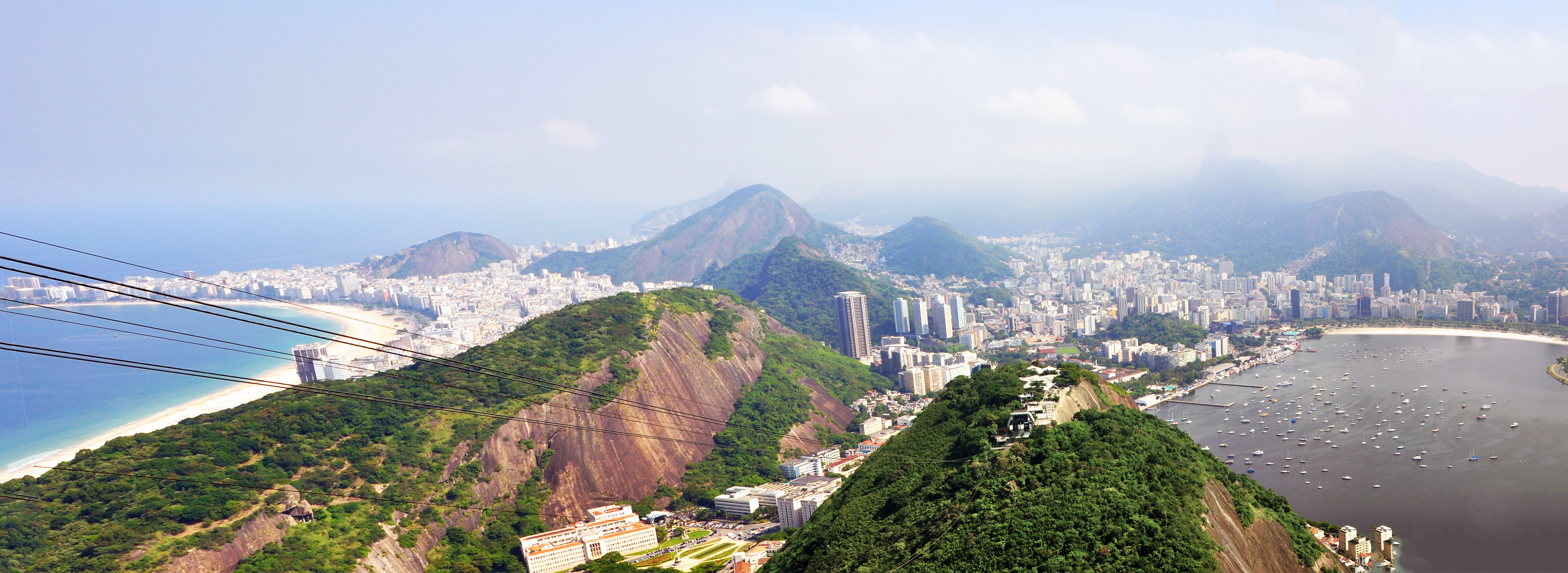 Rio de Janeiro panorama 2010 seen from Sugar Loaf